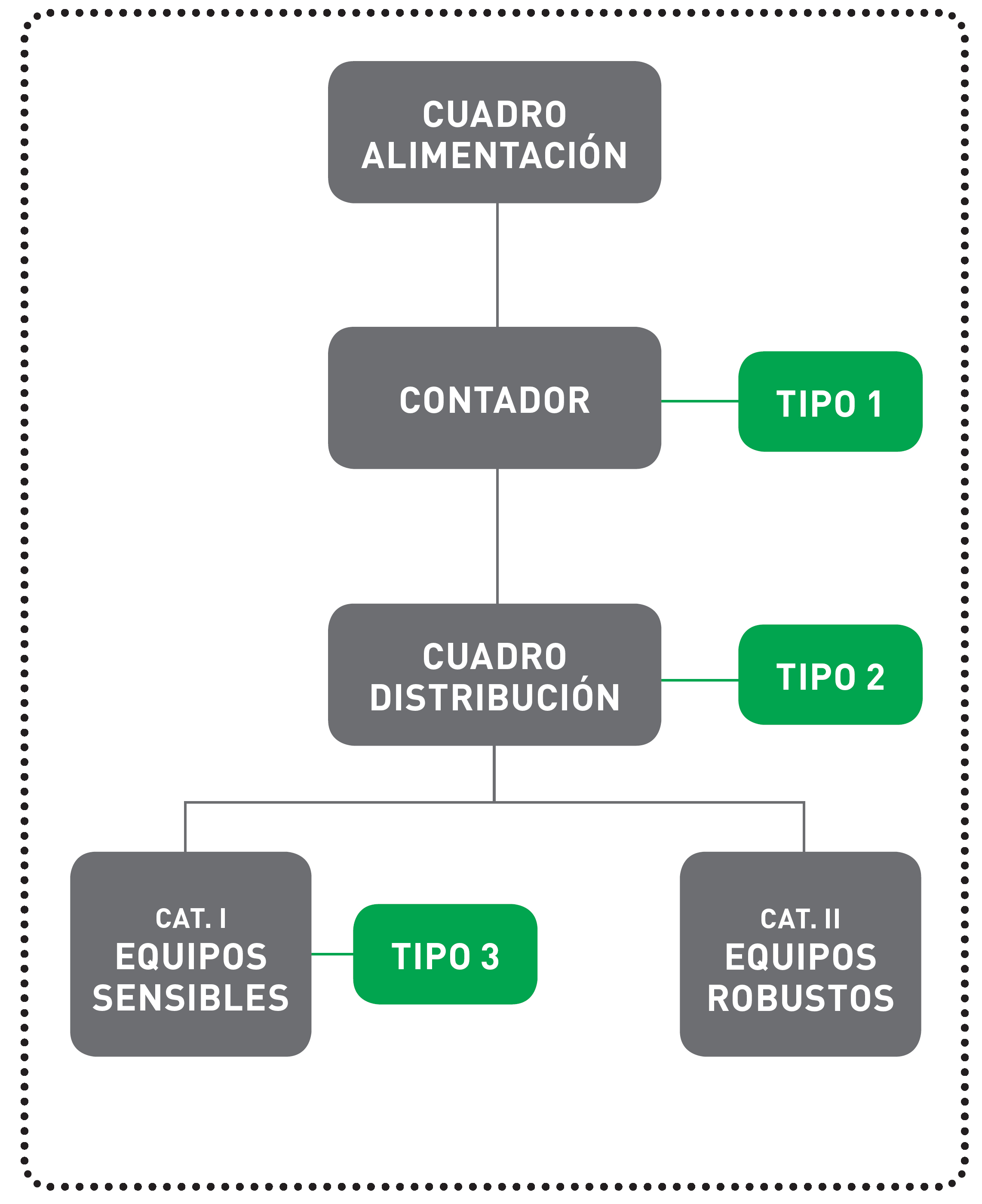 Protectores type